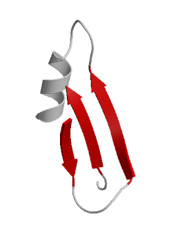 Cartoon representation of the Psi-loop motif.